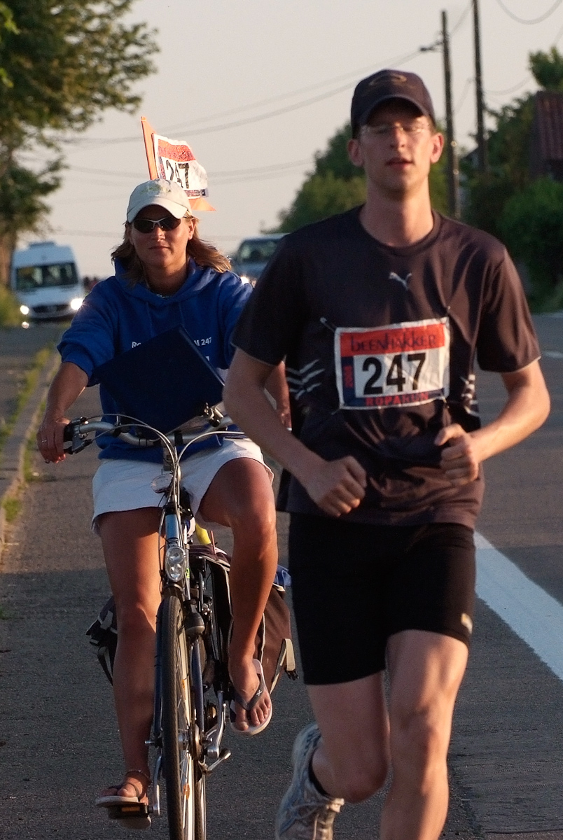 Roparundeelnemers